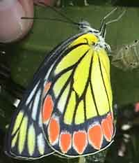 Made by self(Viren Vaz) in own backyard